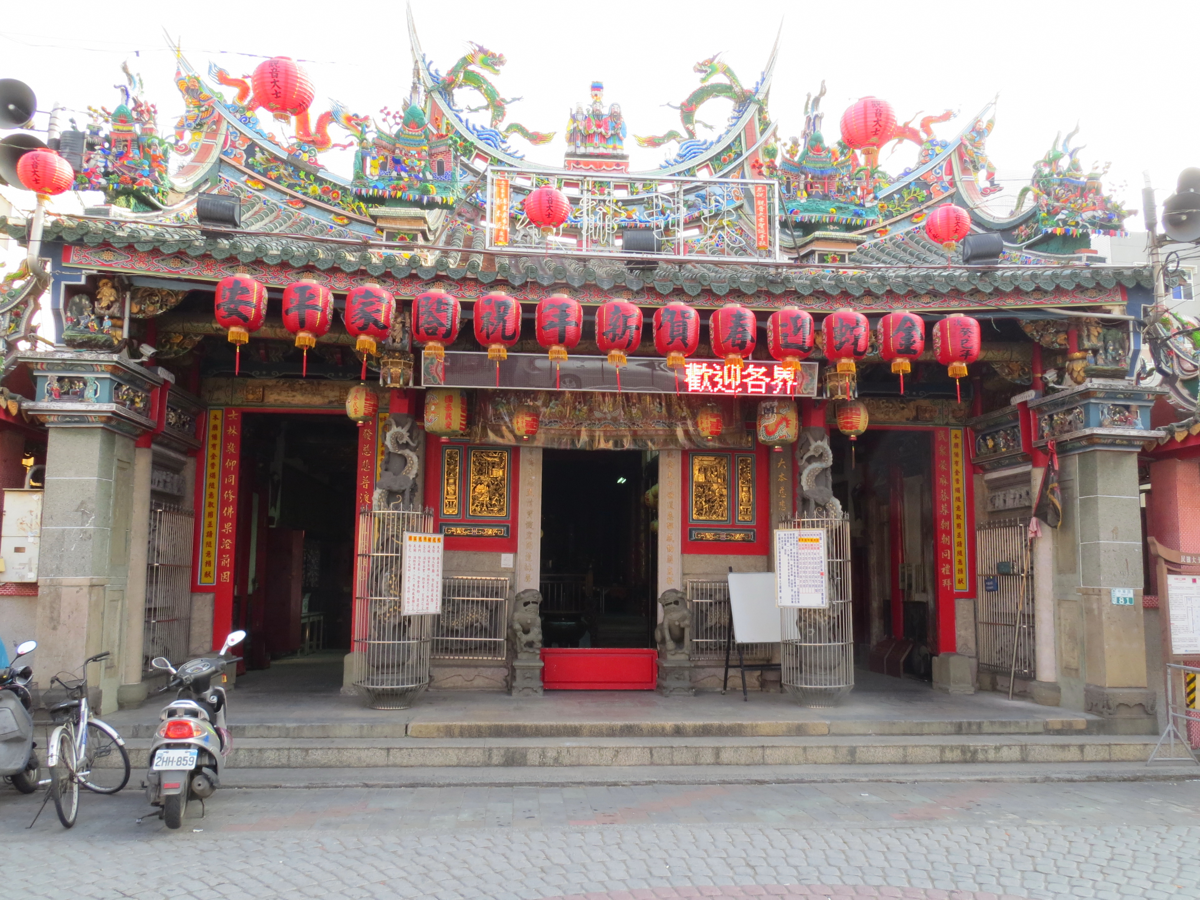 Da Shi Ye Temple, 81 Chung Le road, Minxiong, Chiayi, Taiwan.